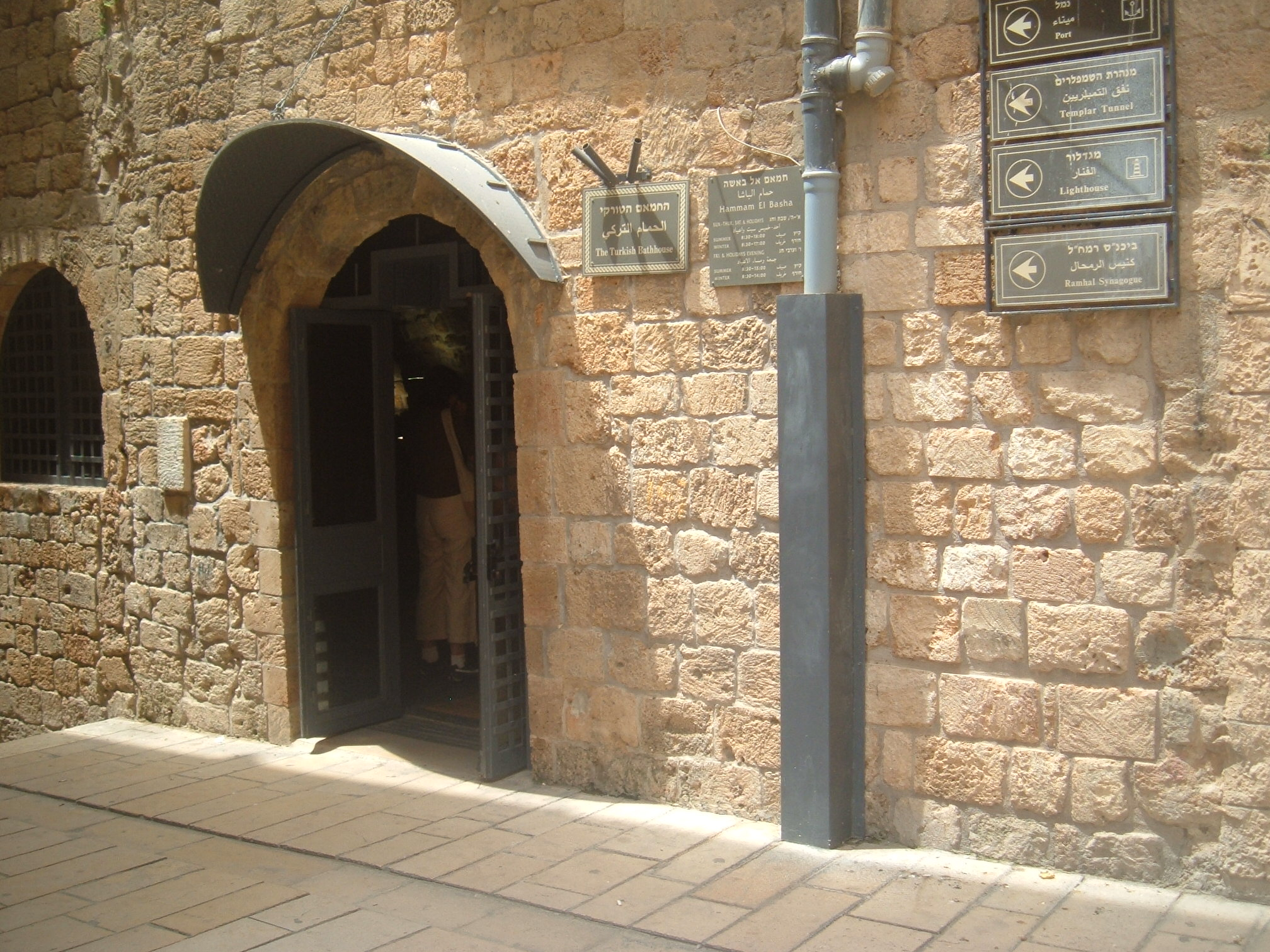 entrance to Hamam el Basha, Acre, Israel הכניסה לחמאם אל באשה בעכו